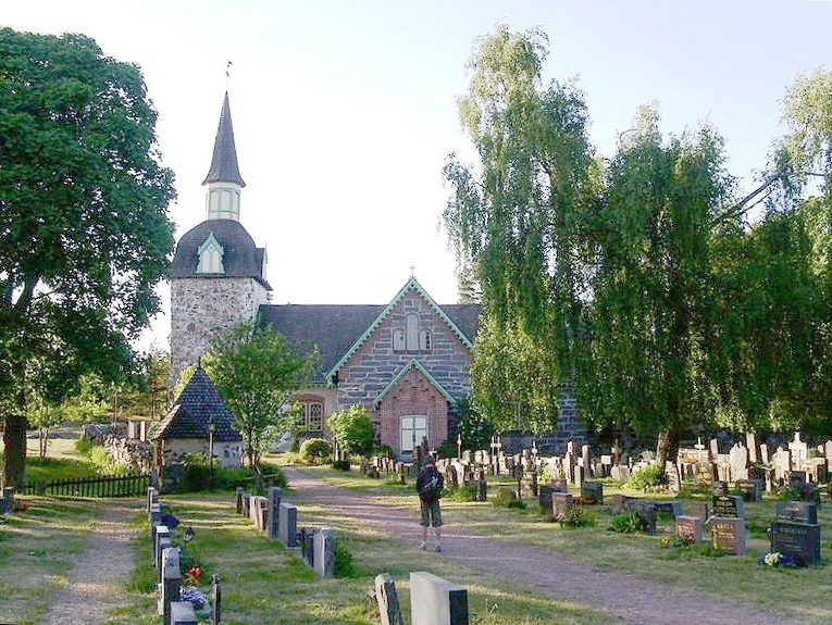 Föglö church, Åland, south side